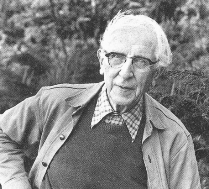 Photograph of the Swedish composer Hilding Rosenberg (1892–1985).